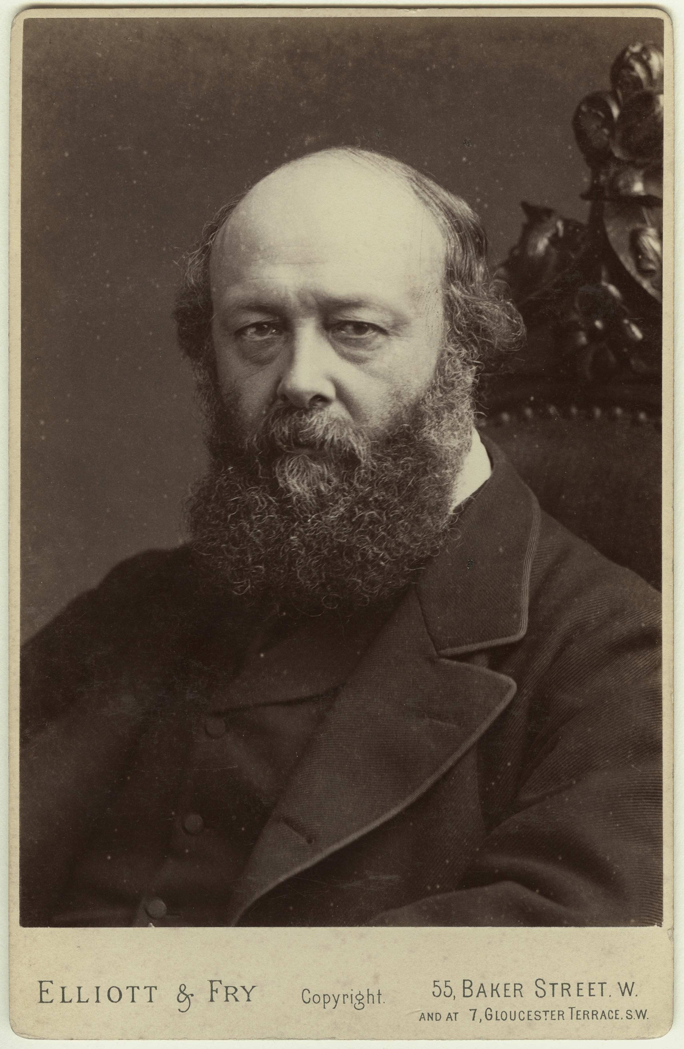 Portrait of Robert Gascoyne-Cecil (1830–1903)